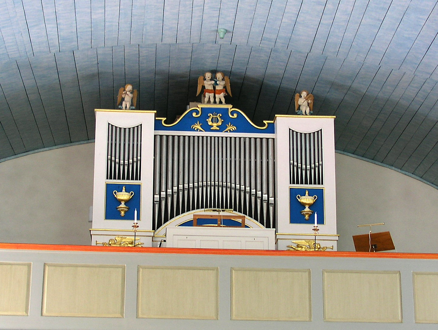 Påskallaviks kyrka / church, in Oskarshamns kommun. Organ. The photo was taken the 10th of August 2005 by Håkan Svensson (Xauxa).